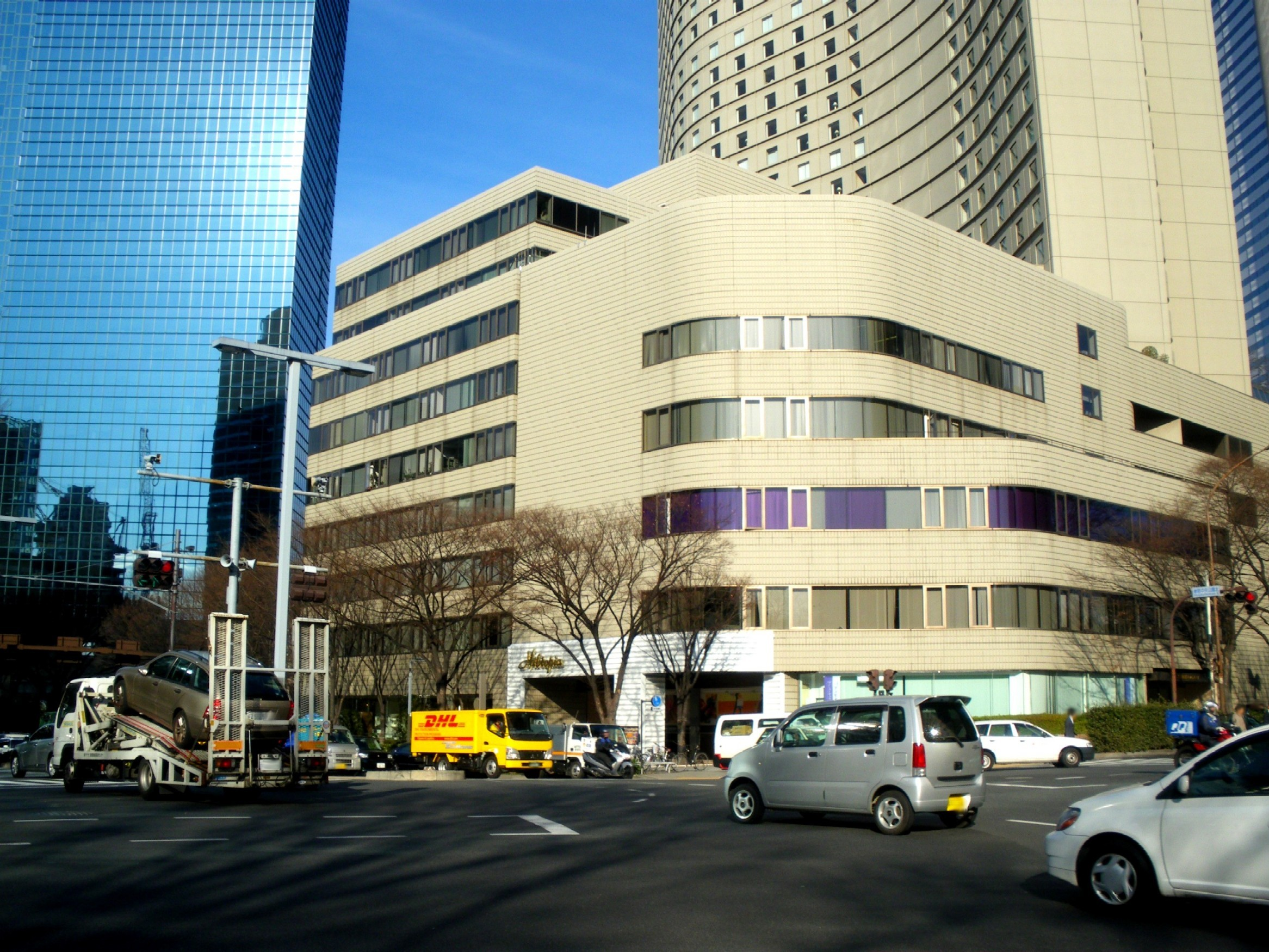 photo of Shinjuku kokusai building(Hilton Tokyo),one of the skyscrapers in Shinjuku,Tokyo,Japan.(Seen from Shinjuku chuo park crossing side)